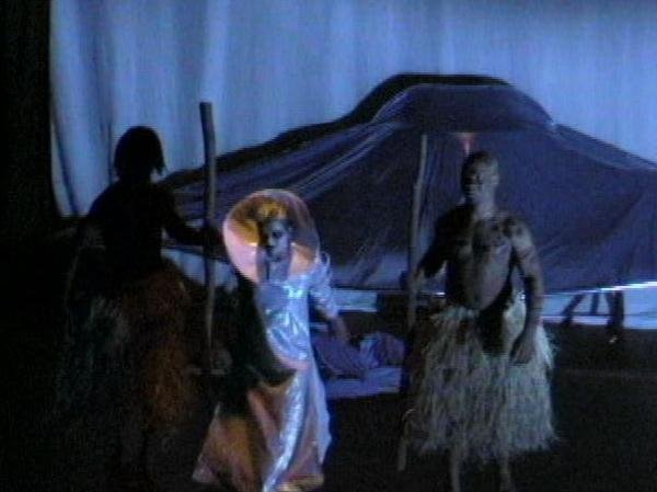 Still photo from Cleveland Premiere of 'ENKI' directed by Lorin Morgan-Richards, 1999. Choreography by Michael Medcalf.